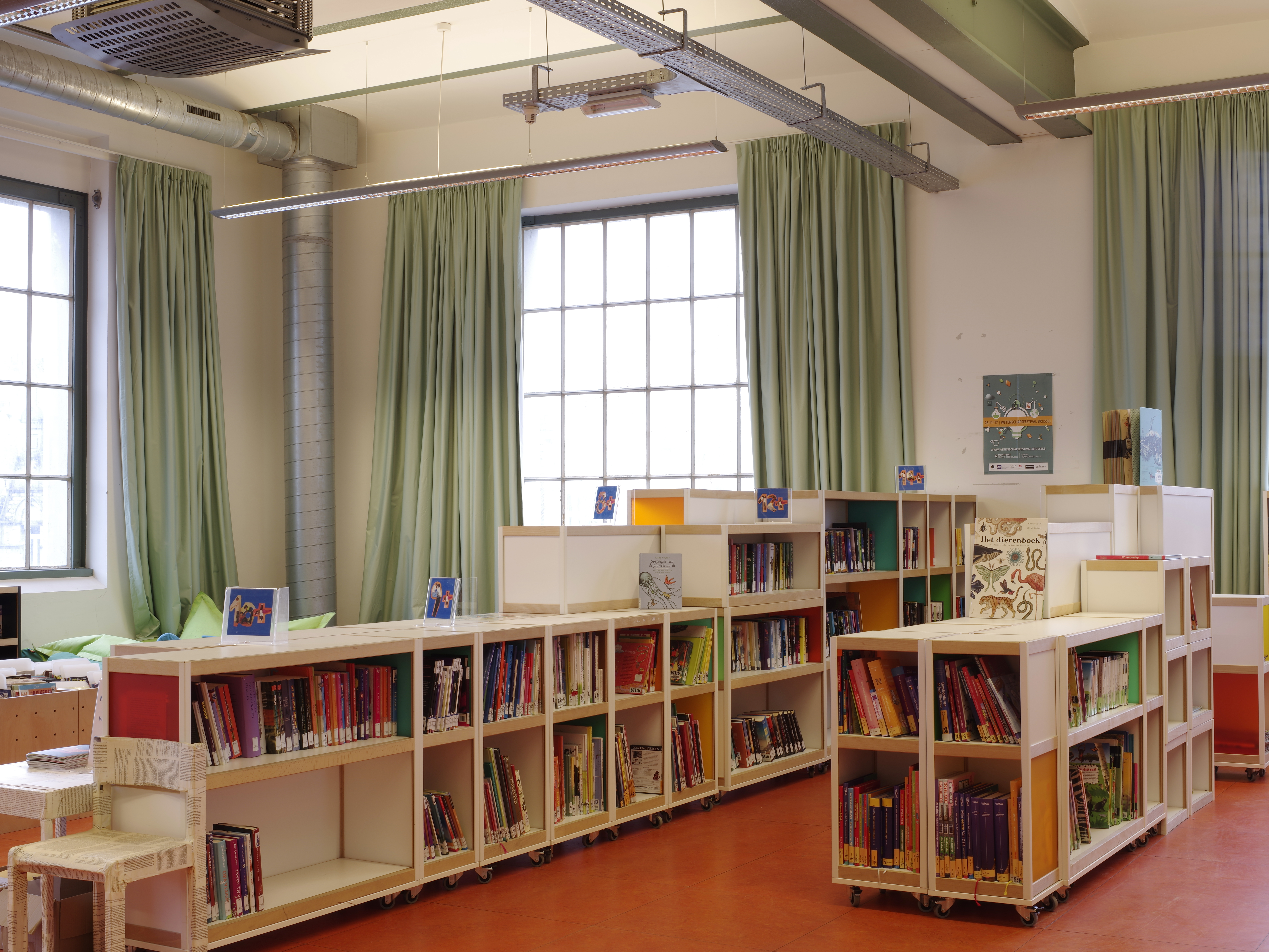 BLI:B, public library Vorst - Forest, at avenue Van Volxem 364 in 1190 Brussels (Forest).